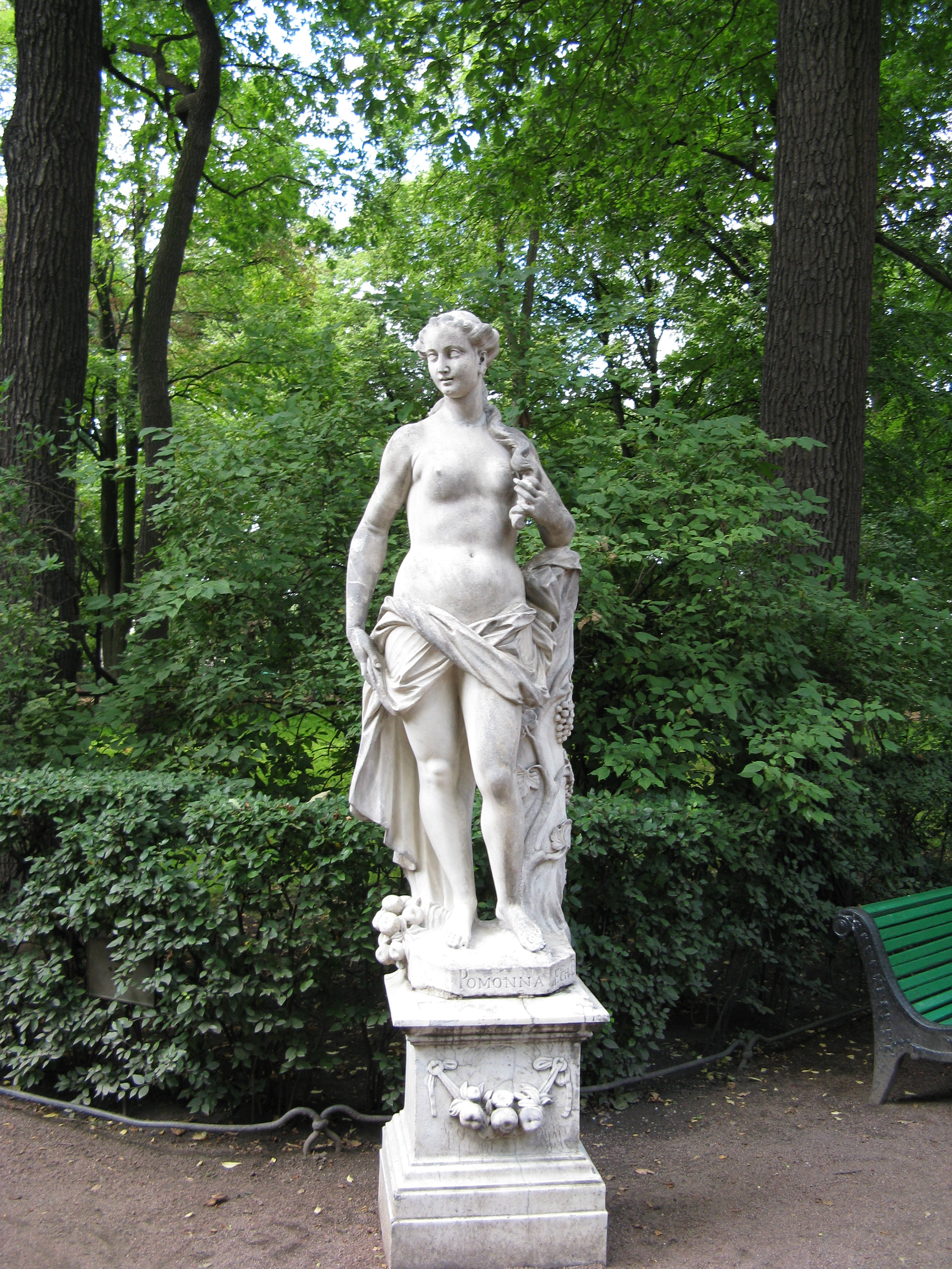 Pomona by F. Cabianca. 1717 at Summer Garden